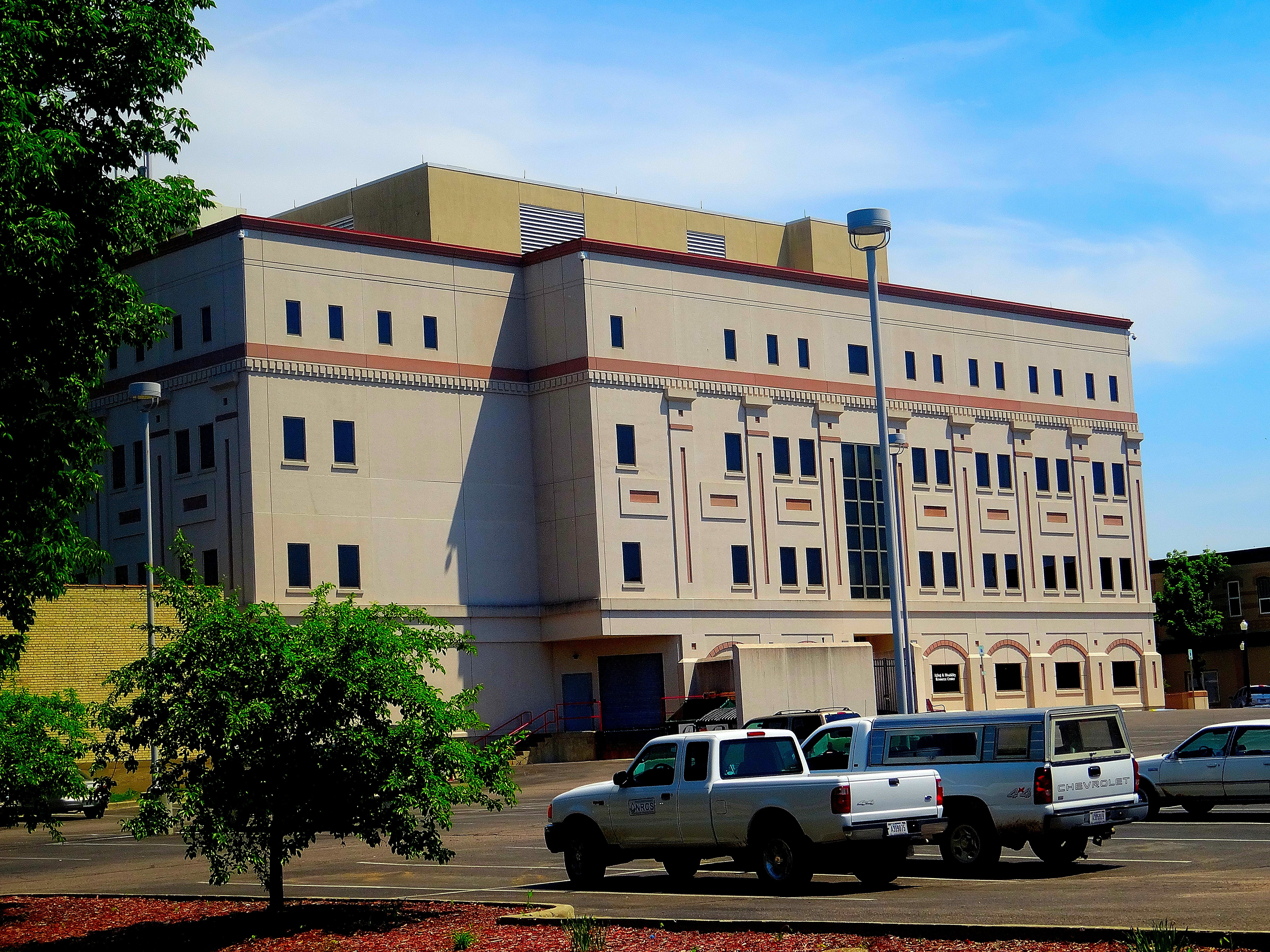 Sauk County Government Building